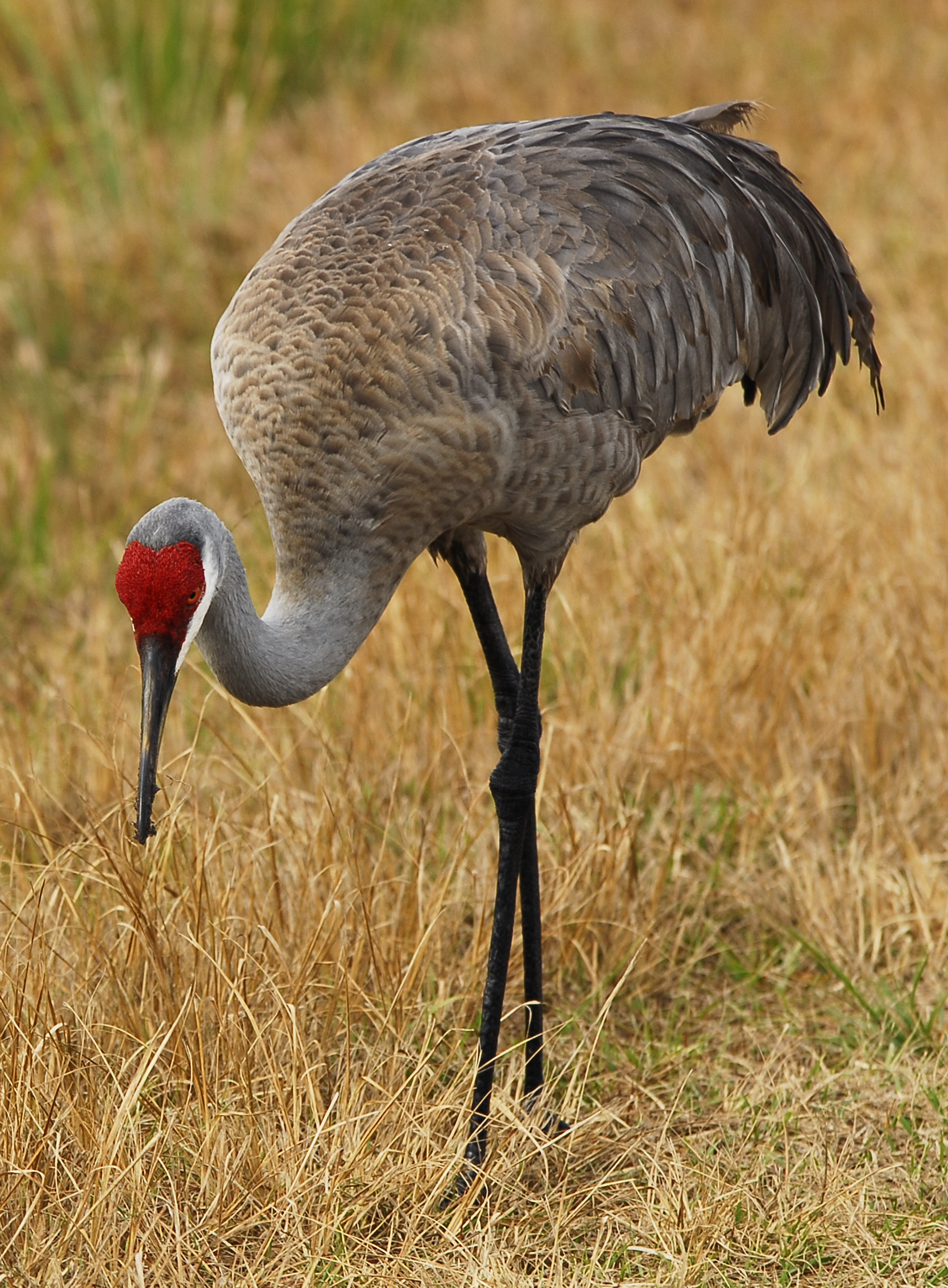 A Sandhill Crane at Lake Woodruff National Wildlife Refuge